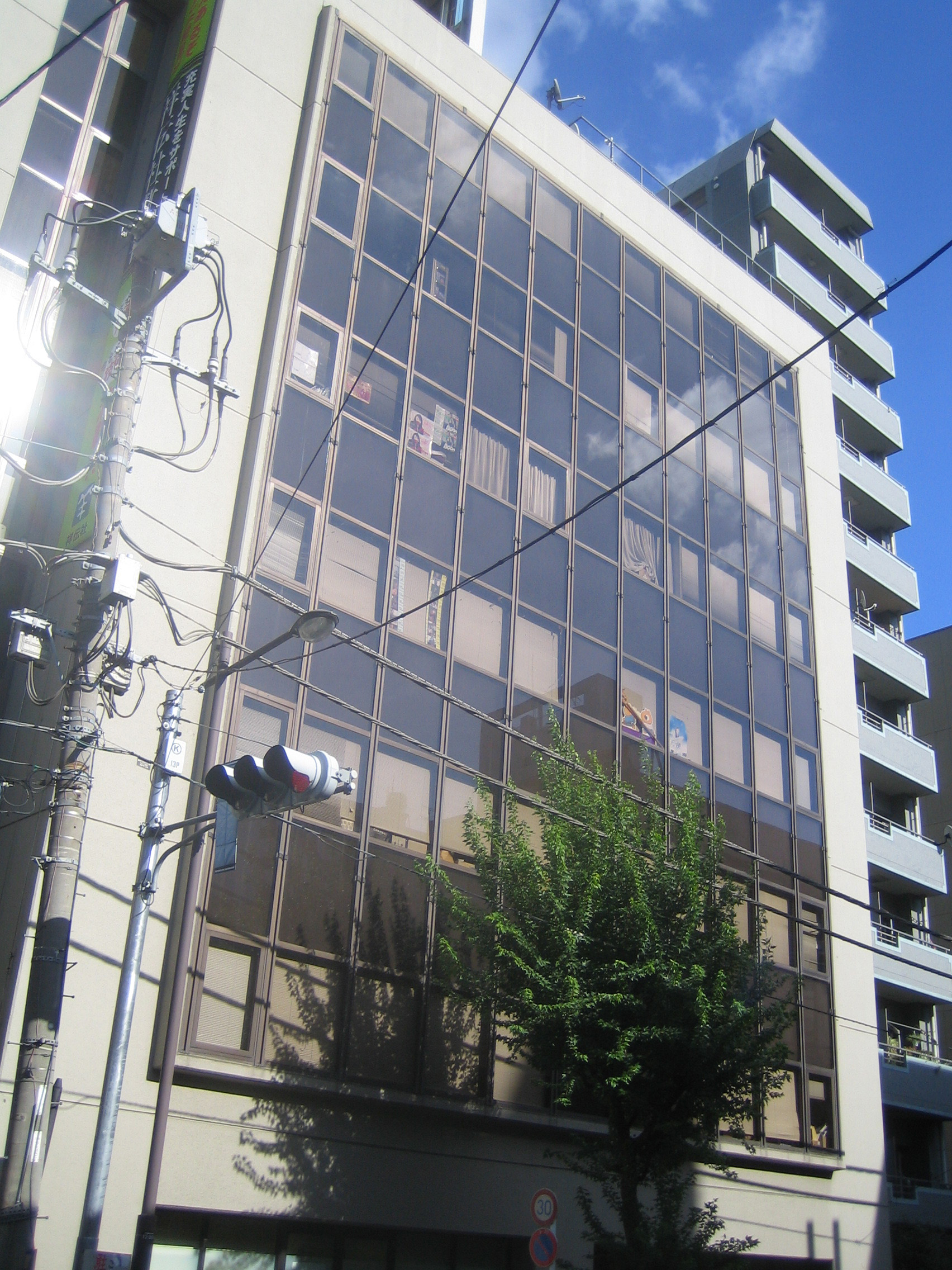 祥伝社。東京都千代田区神田神保町 The headquarters of Shodensha (祥伝社), at Kanda-Jinbōchō, Chiyoda, Tokyo, Japan